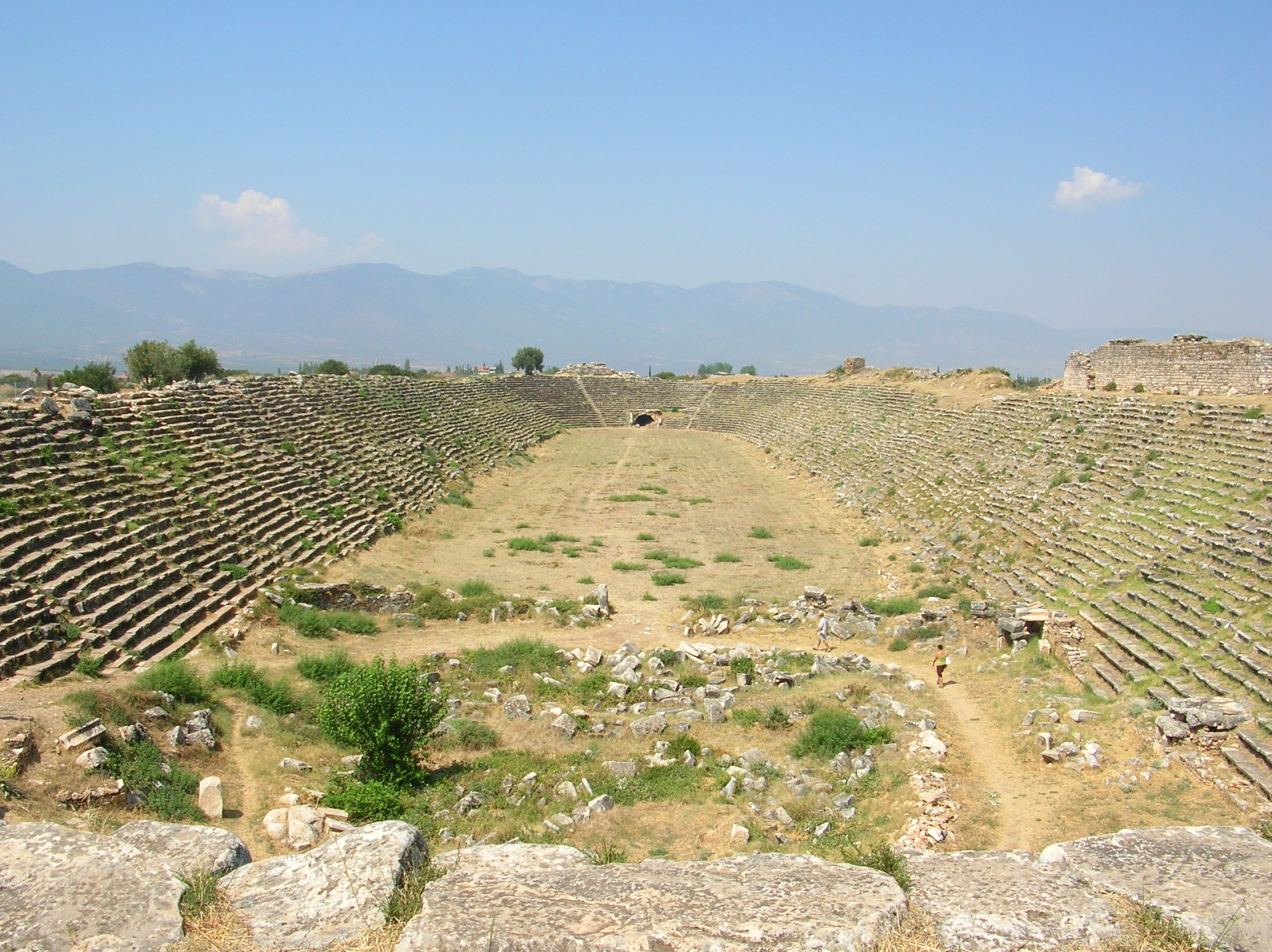 Stadium in Aphrodisias, Turkey.